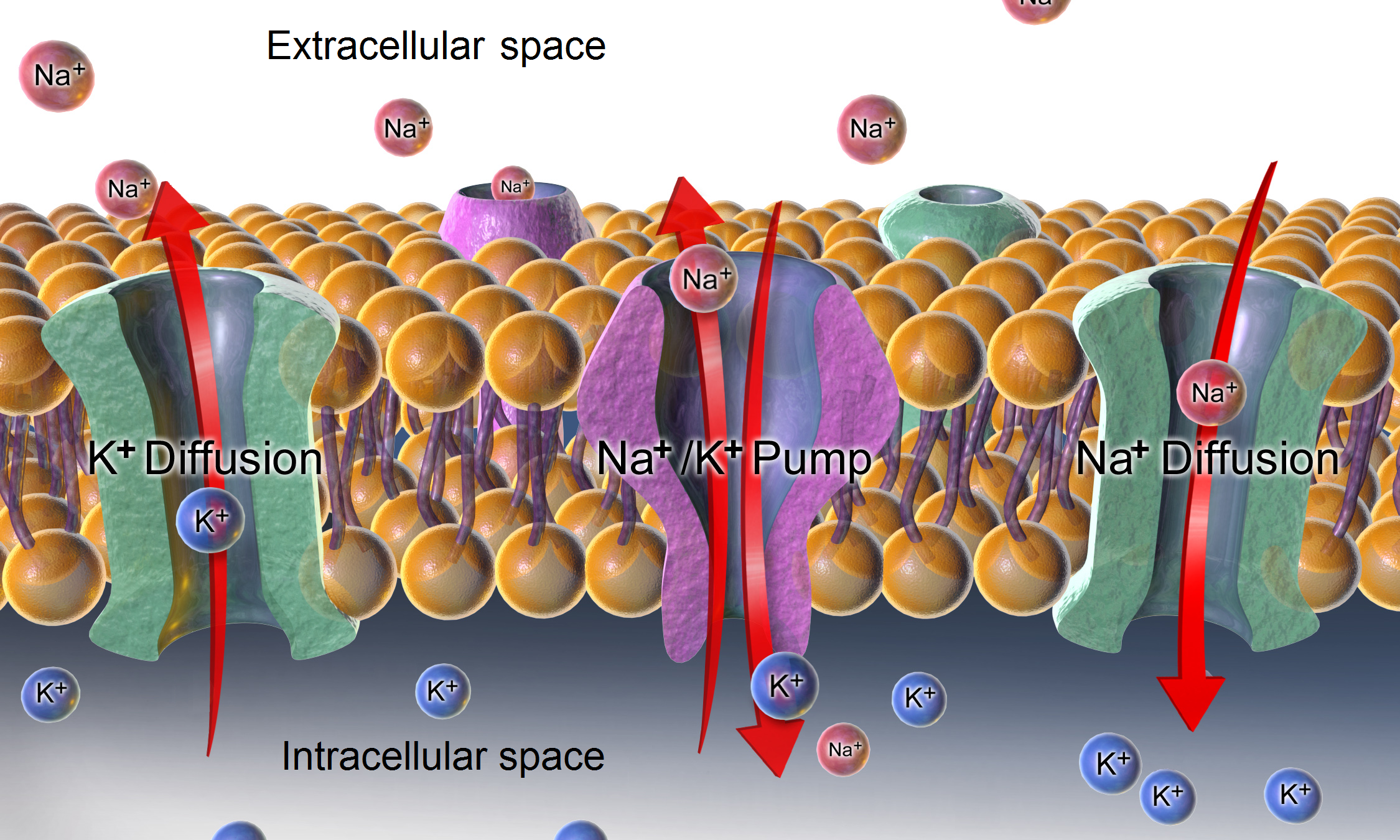 The sodium-potassium pump and related diffusion of sodium and potassium between the extracellular and intracellular space.